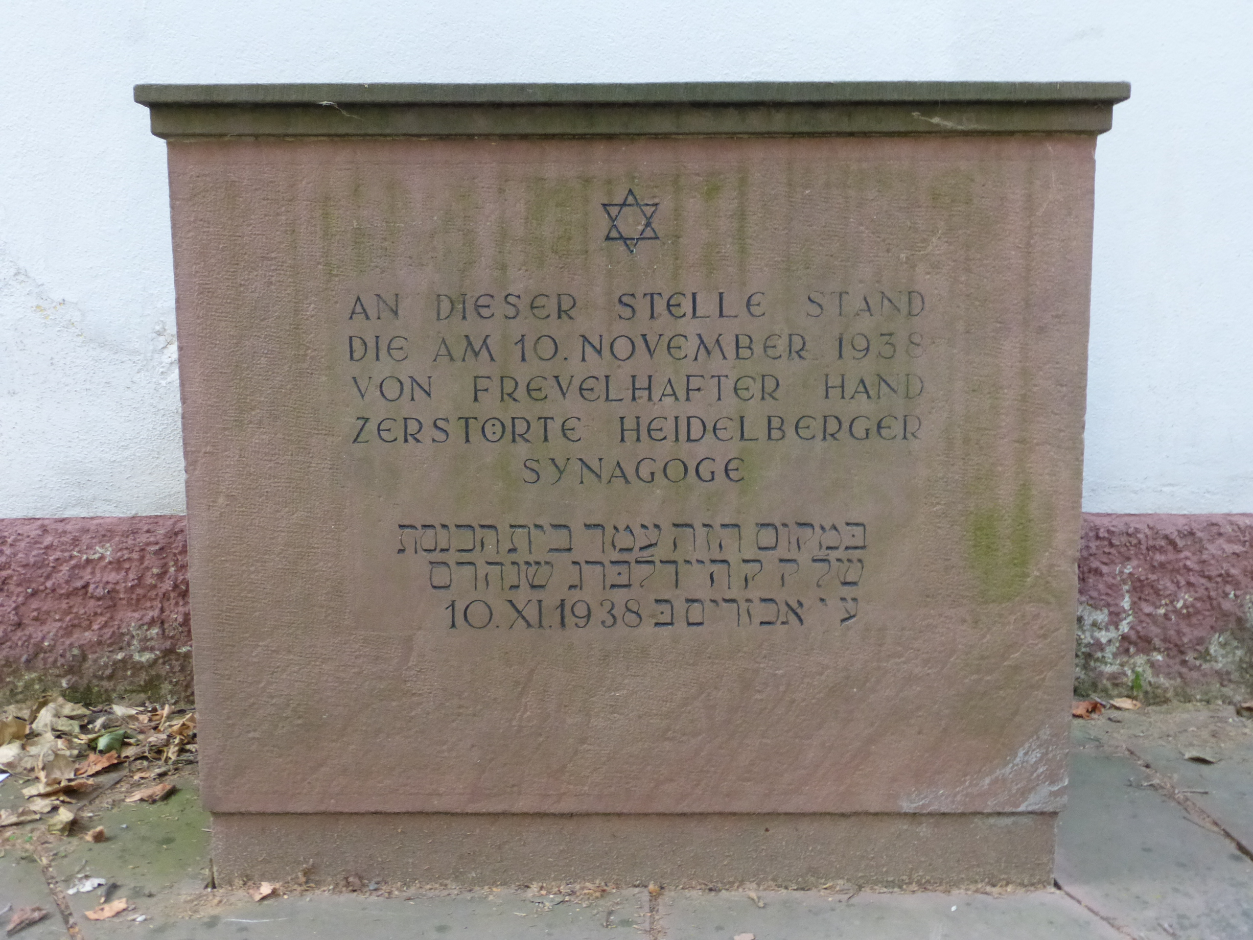 Memorial stone marking the site of one of Heidelberg's synagogues burnt down on the night of 10 November 1938